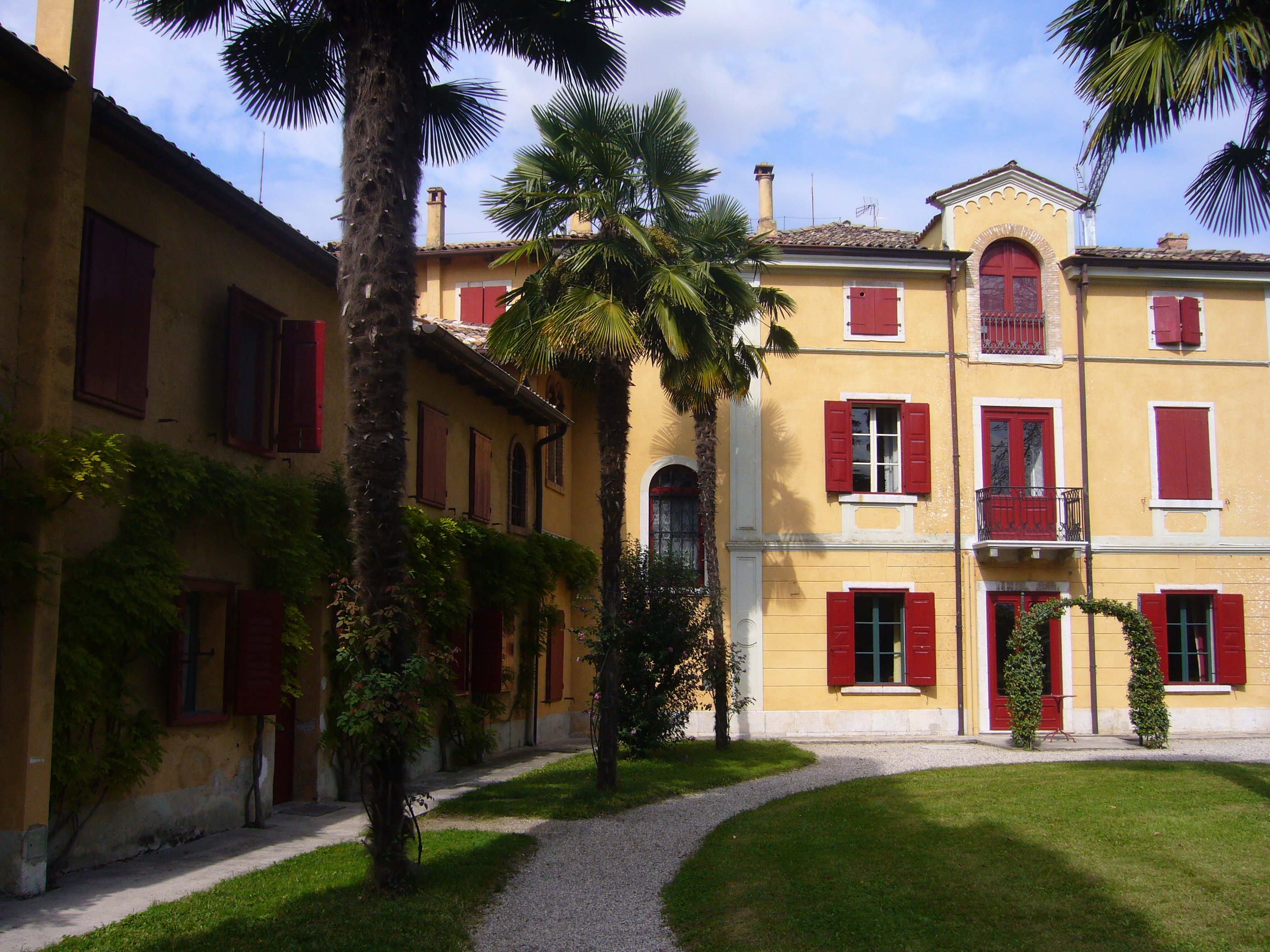 Villa Iachia (front), Ruda, Italy